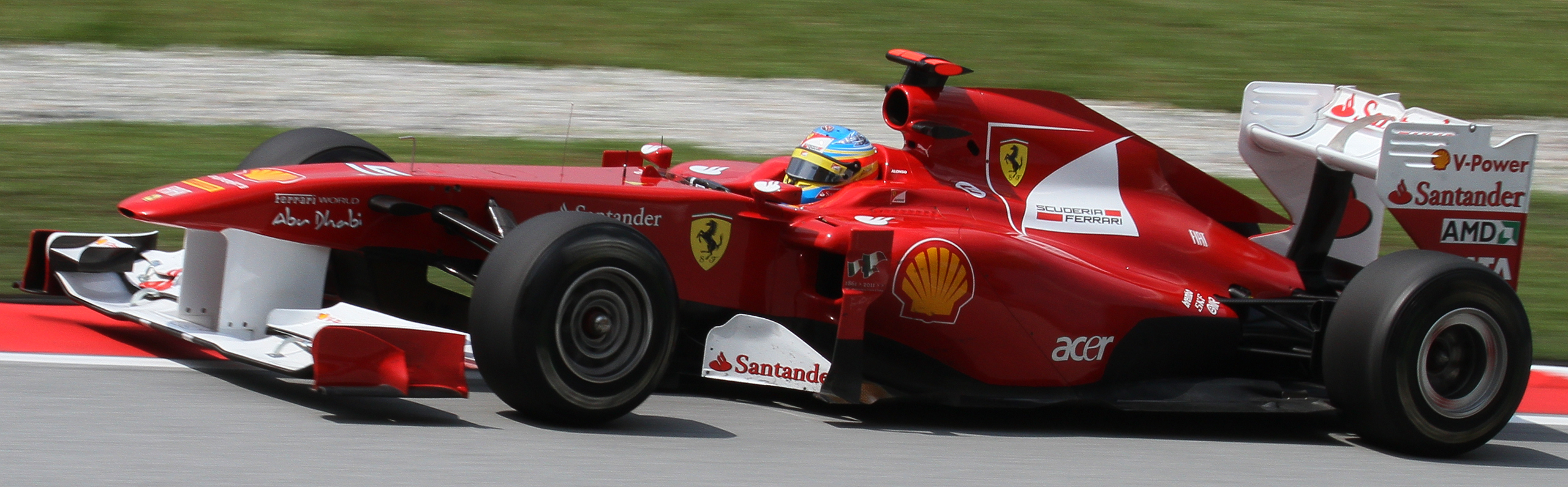 Formula One 2011 Rd.2 Malaysian GP: Fernando Alonso (Ferrari) during the first practice session on Friday.